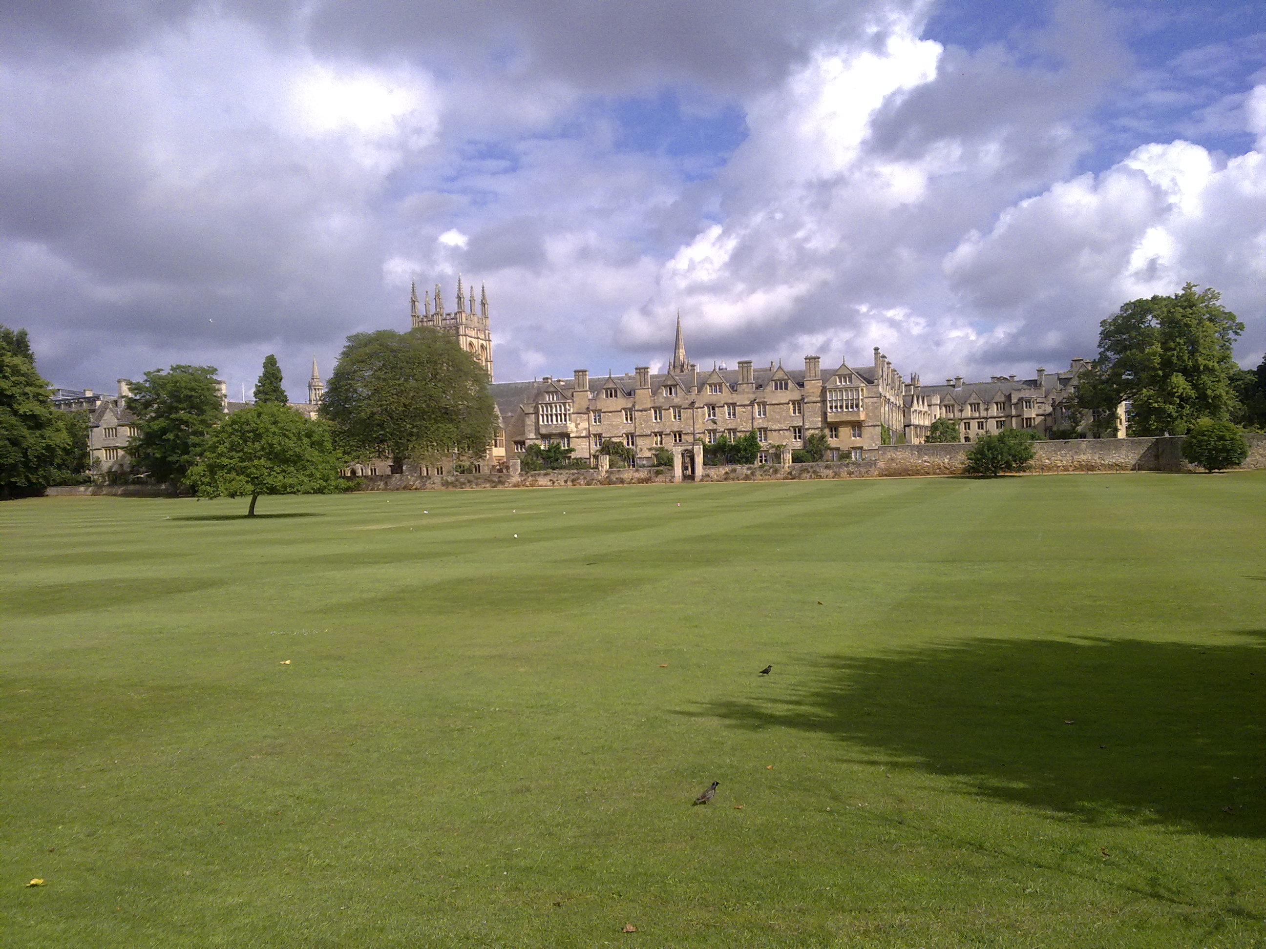 Merton College viewed from the south of the Christ Church Meadow.